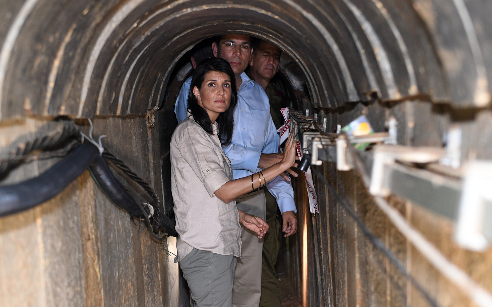 US Ambassador to the UN Nikki Haley receives briefing from BG Yehuda Fuchs and tours "Indian Chai" terror tunnel built by Hamas. Photo Credit: Matty Stern/U.S. Embassy Tel aviv